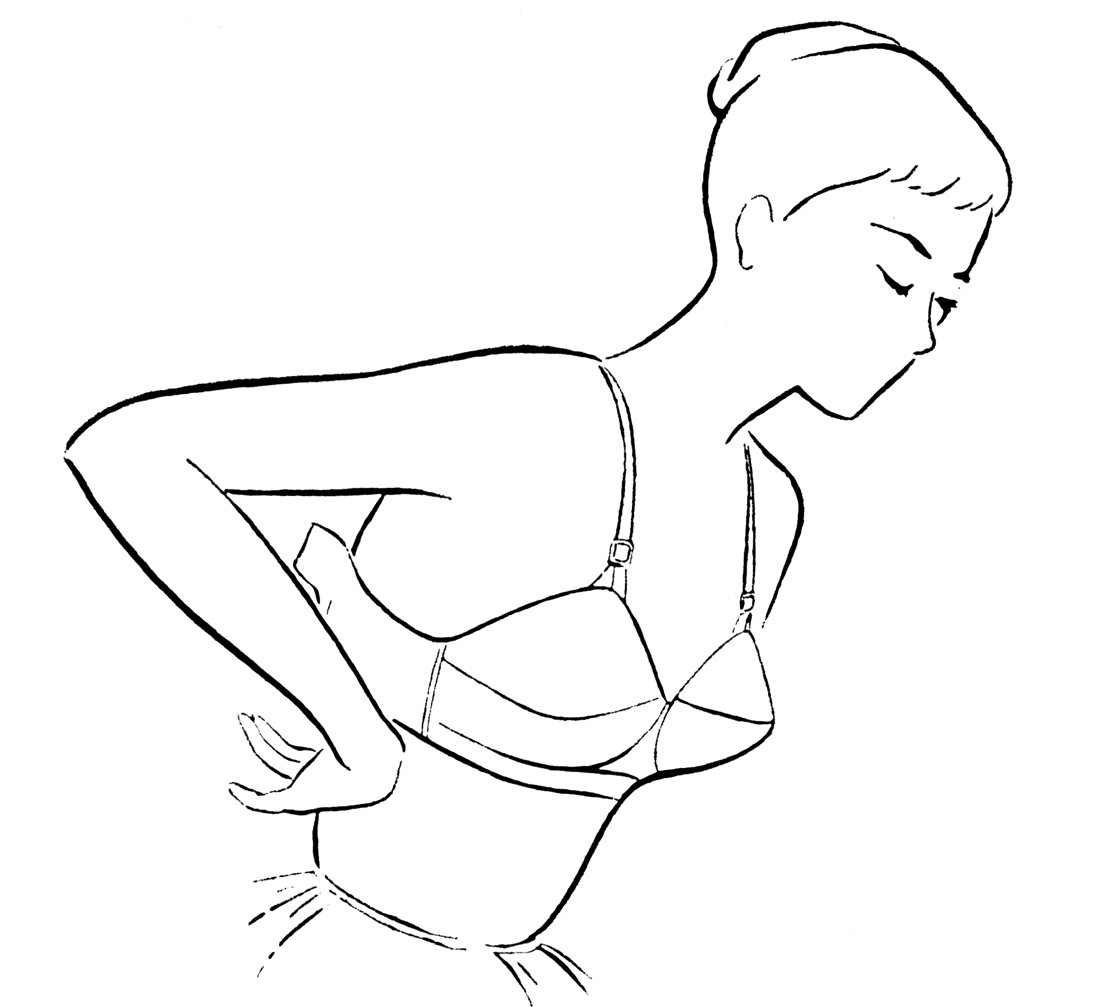 7. Put the brassiere on correctly for a better fit.